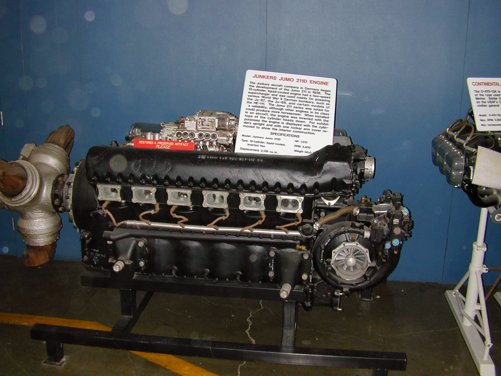 Junkers Jumo 211D Engine (displayed upside down, i.e. bottom on top)